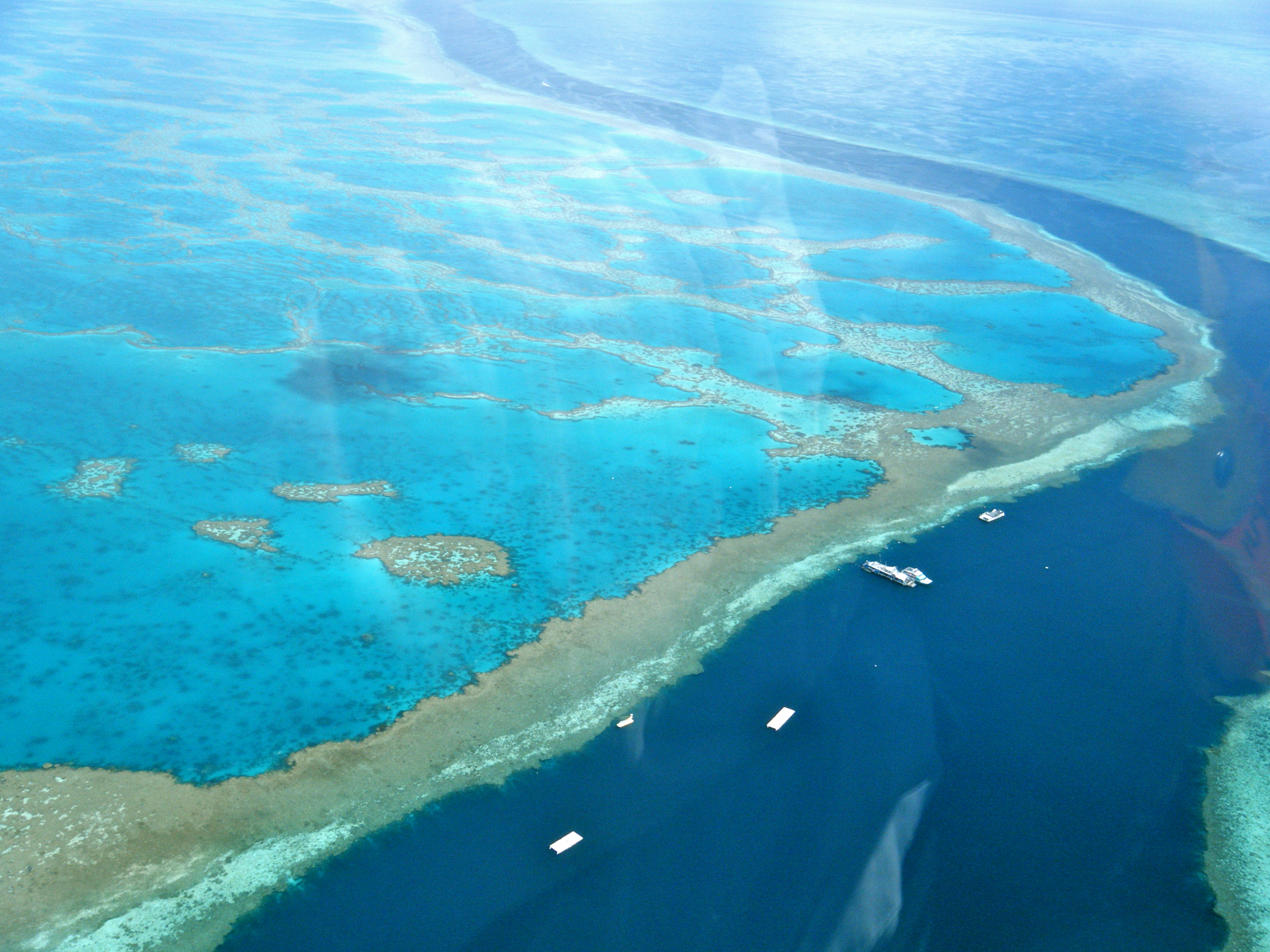 Helicopter ride over the Great Barrier Reef at the Whitsunday Islands, Australia.